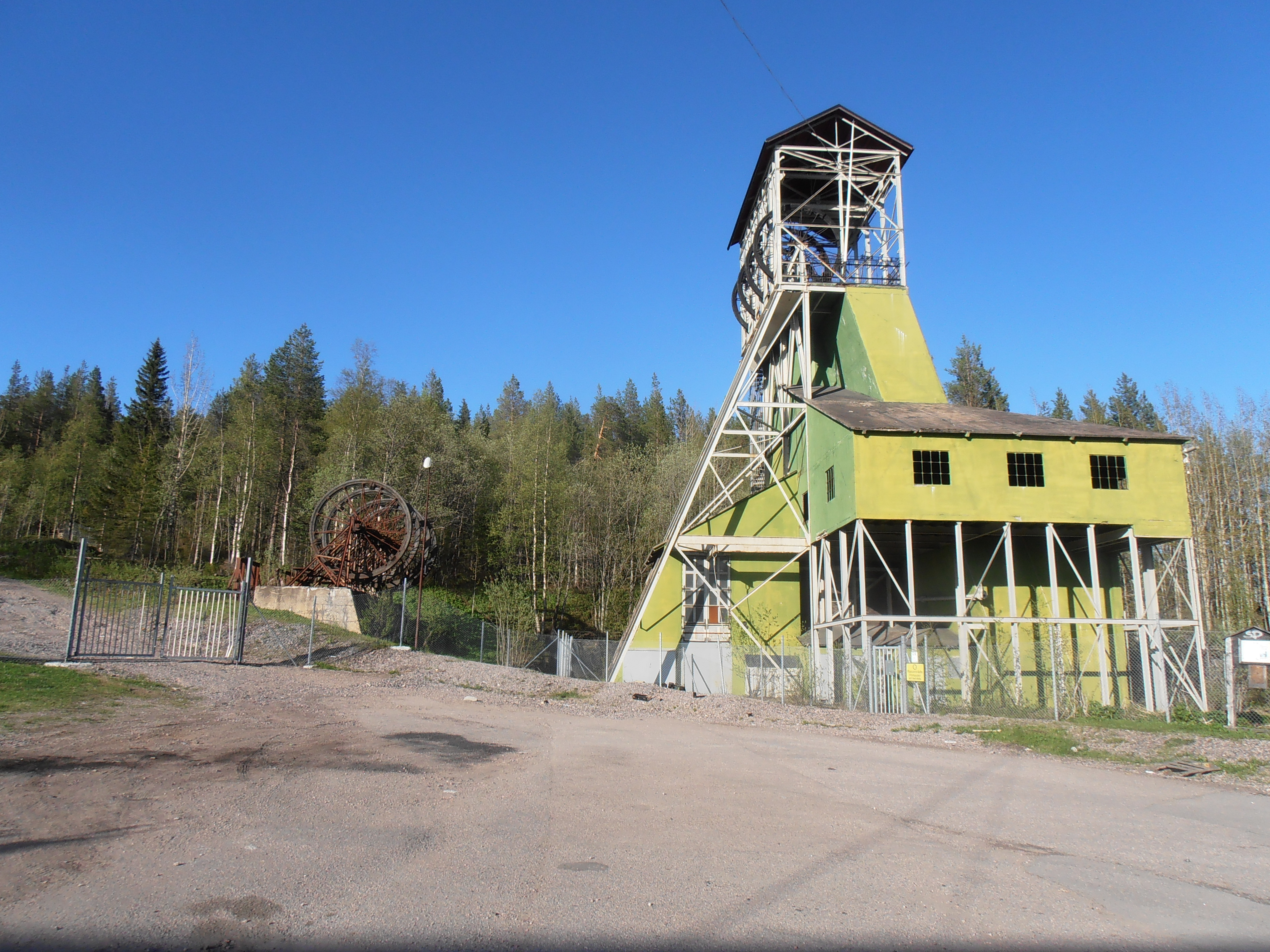 The mining elevator Kaptensspelet on Kaptensbacken in Malmberget. The elevator was constructed in 1913 and was used until the 1960s